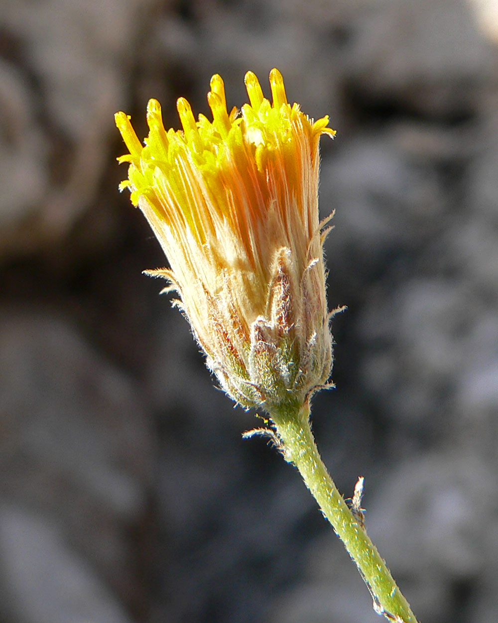 Photo of Bebbia juncea var. aspera (sweetbush) in Red Rock Canyon, Nevada